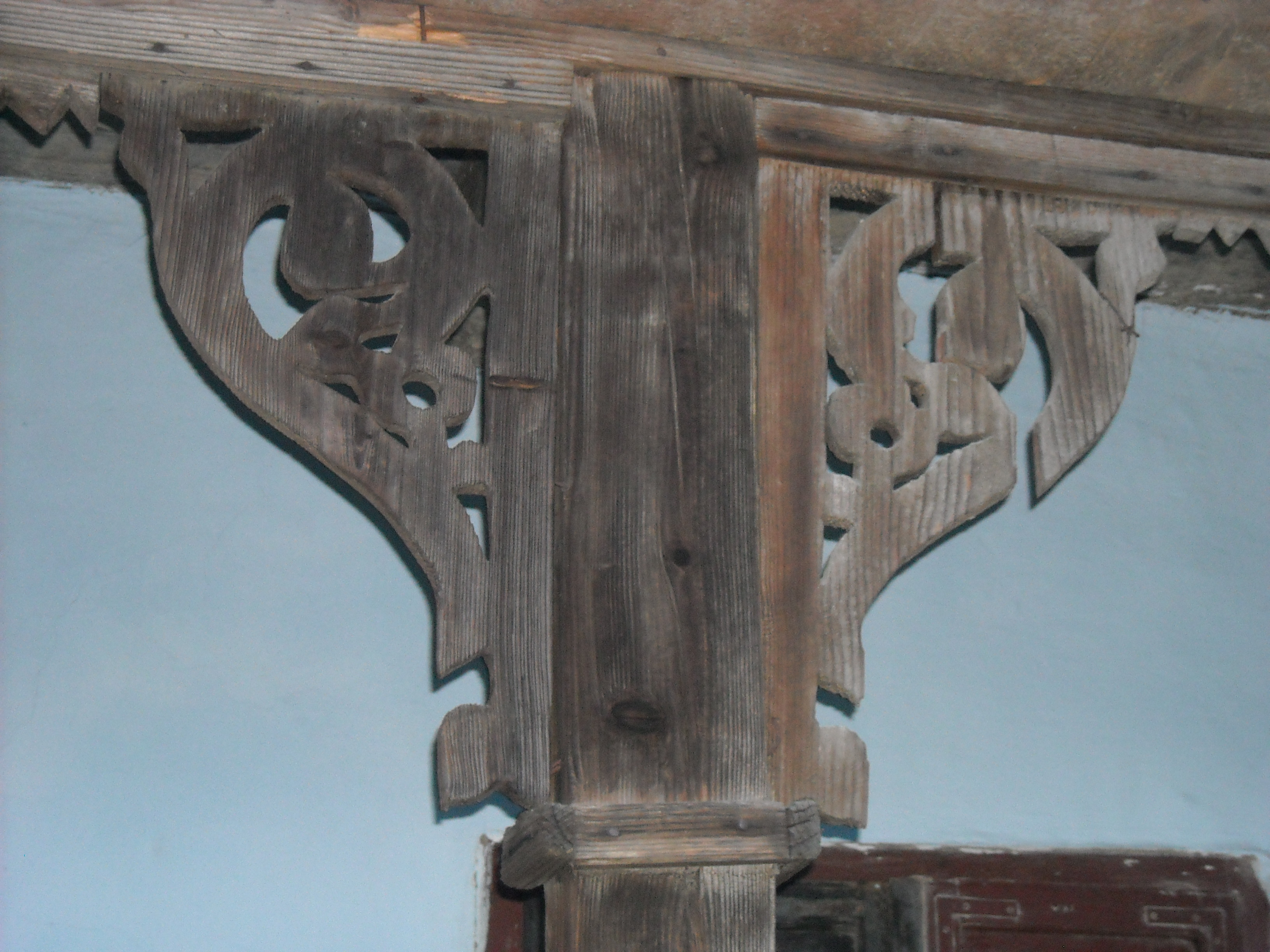 detail from Archiud peasant house in the county museum of Bistrița